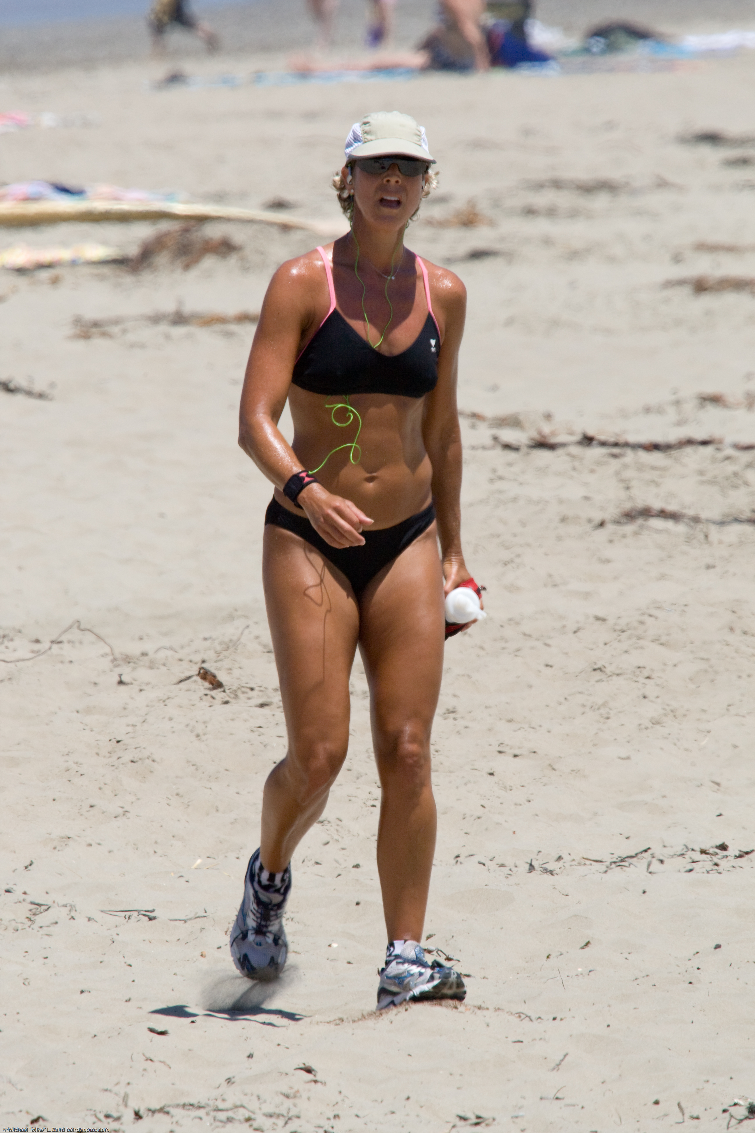 Female jogger with good tan jogging - Scenes from Morro Bay, CA beach next to Morro Rock on the first day of summer 21 June 2008 where temperatures ranged up to 85 degrees F - the sun was very intense burning many but it was easily dismissed due to the cool winds.